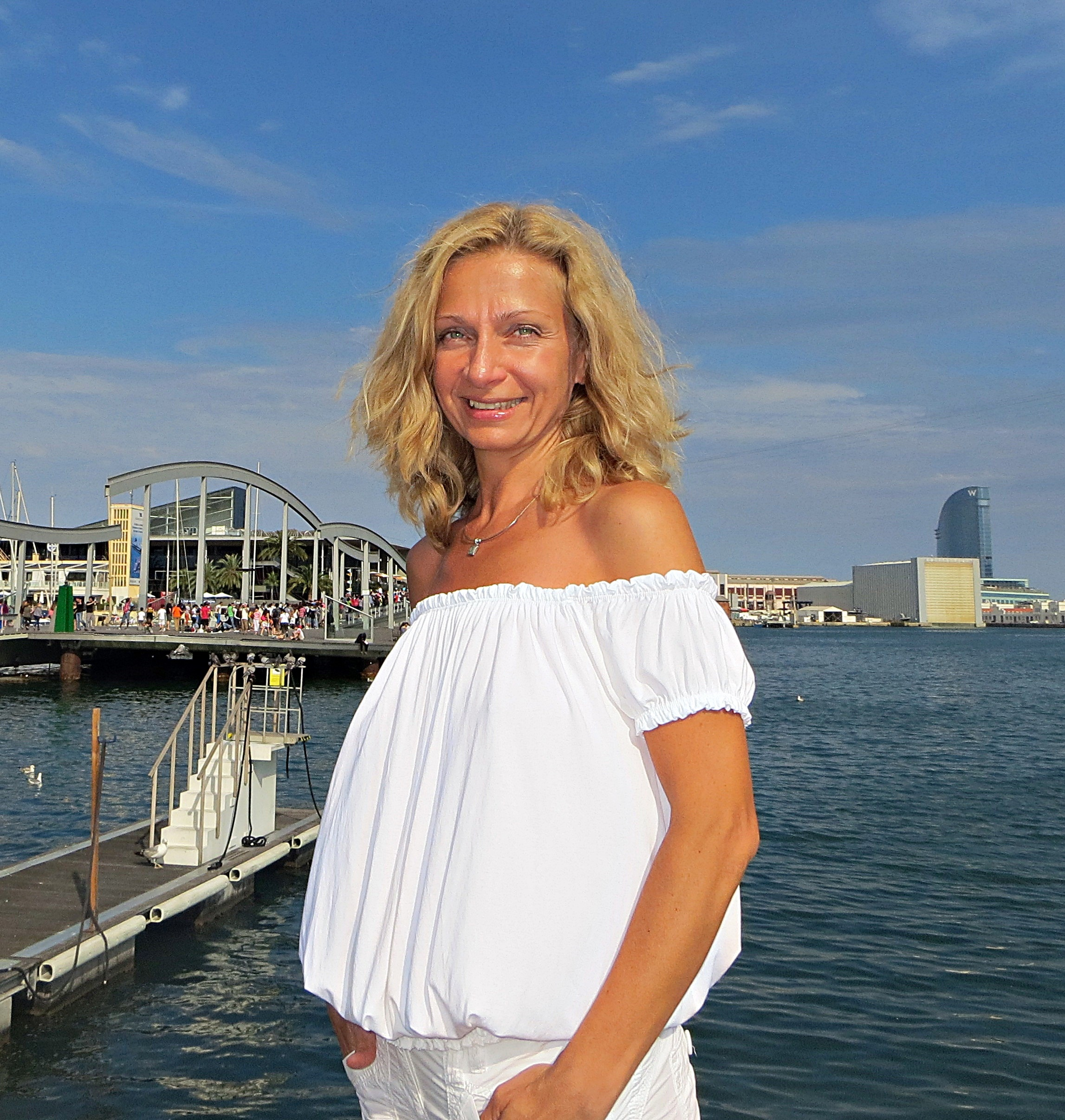 Natália Nagy in Barcelona